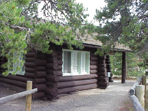 Front of the Glacier Basin Campground Ranger Station, located in Glacier Basin in the Larimer County portion of Rocky Mountain National Park in the U.S. state of Colorado. Built in 1930, it is listed on the National Register of Historic Places.